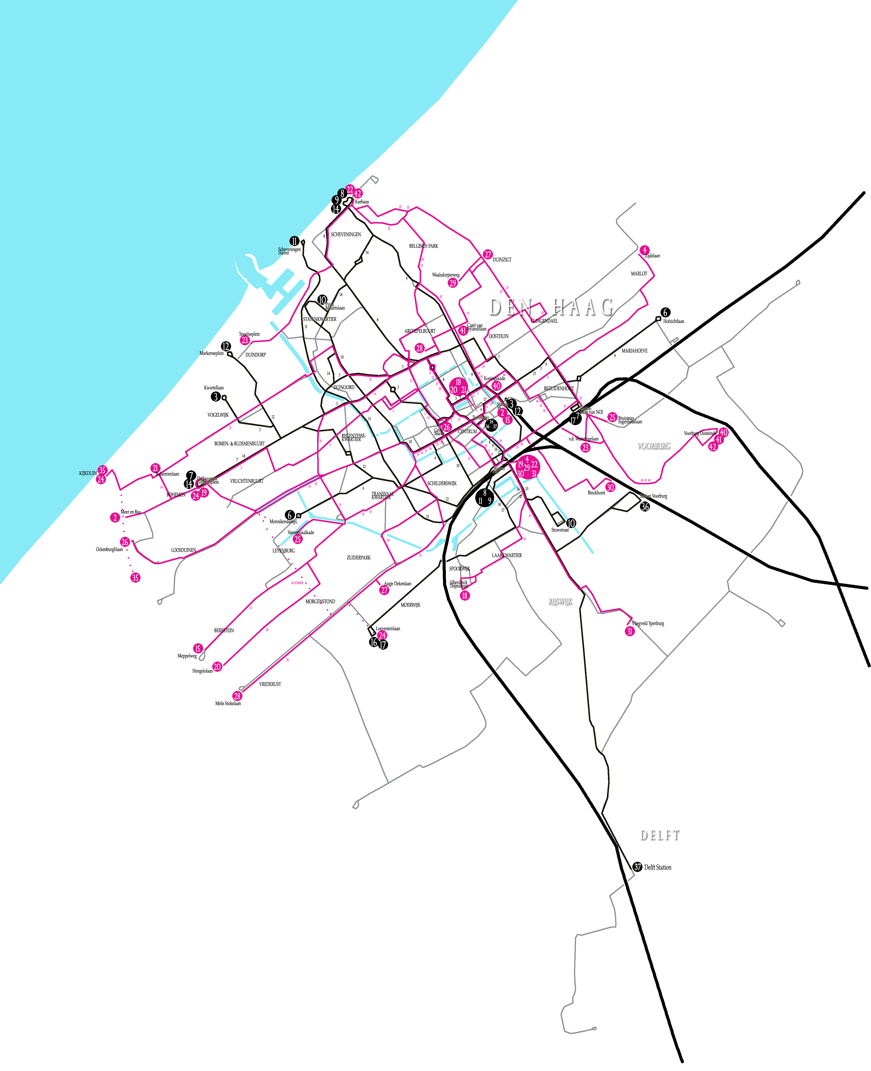 Map of Bus and Tram routes The Hague, The Netherlands, before Lehner's phase 1